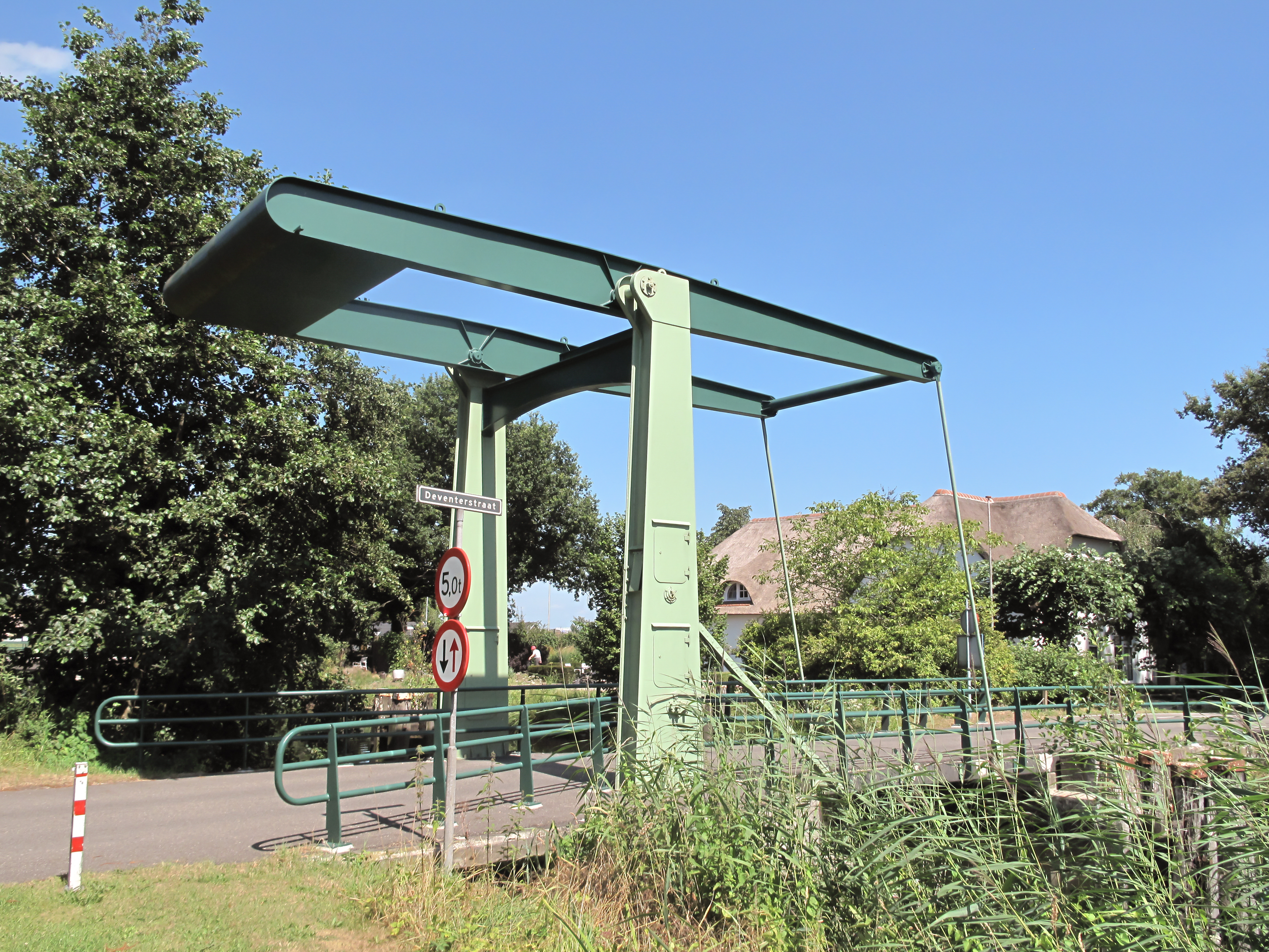 Vaassen, draw bridge across Apeldoorns Kanaal